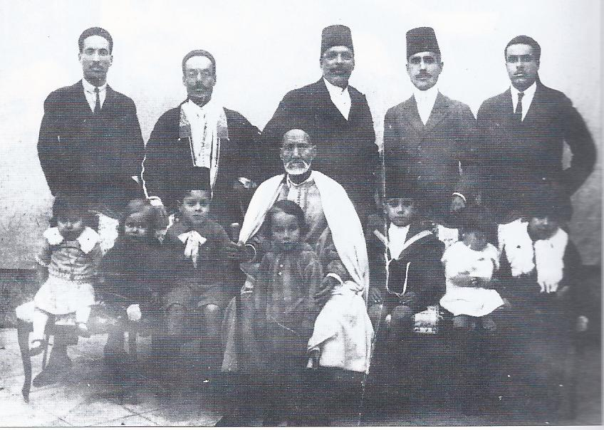 Picture of the Bourguibas